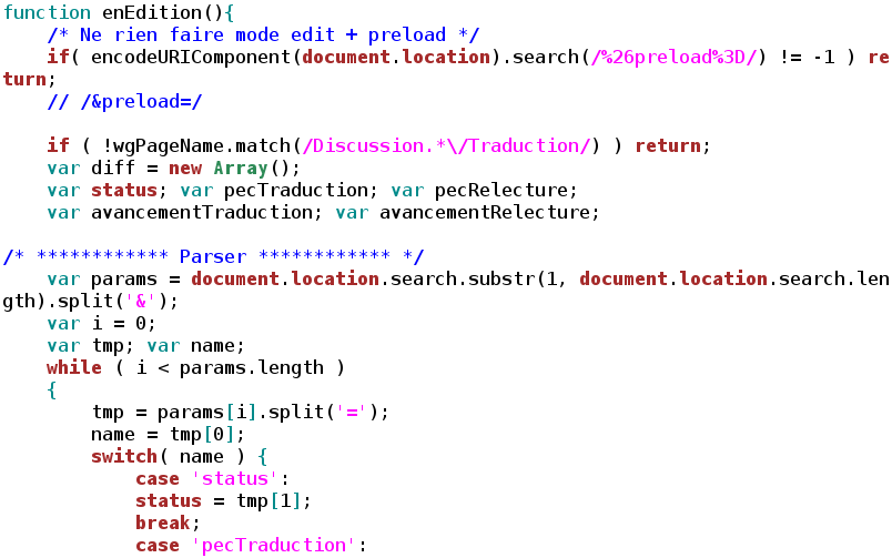 Example of a source code written in javascript (highlighting of gvim).